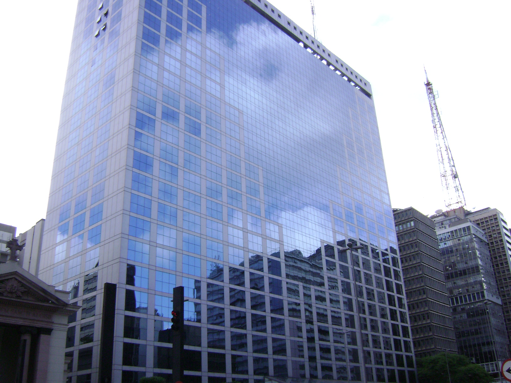 Ed. São Luís Gonzaga, São Paulo (Av. Paulista)